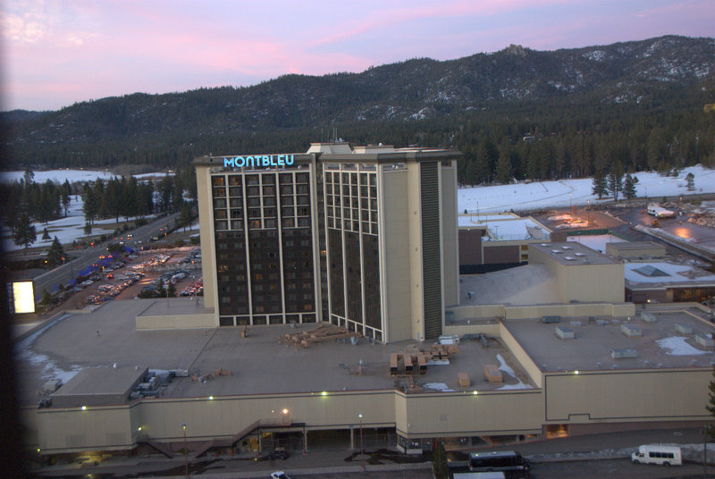 Montbleu casino, Lake Tahoe